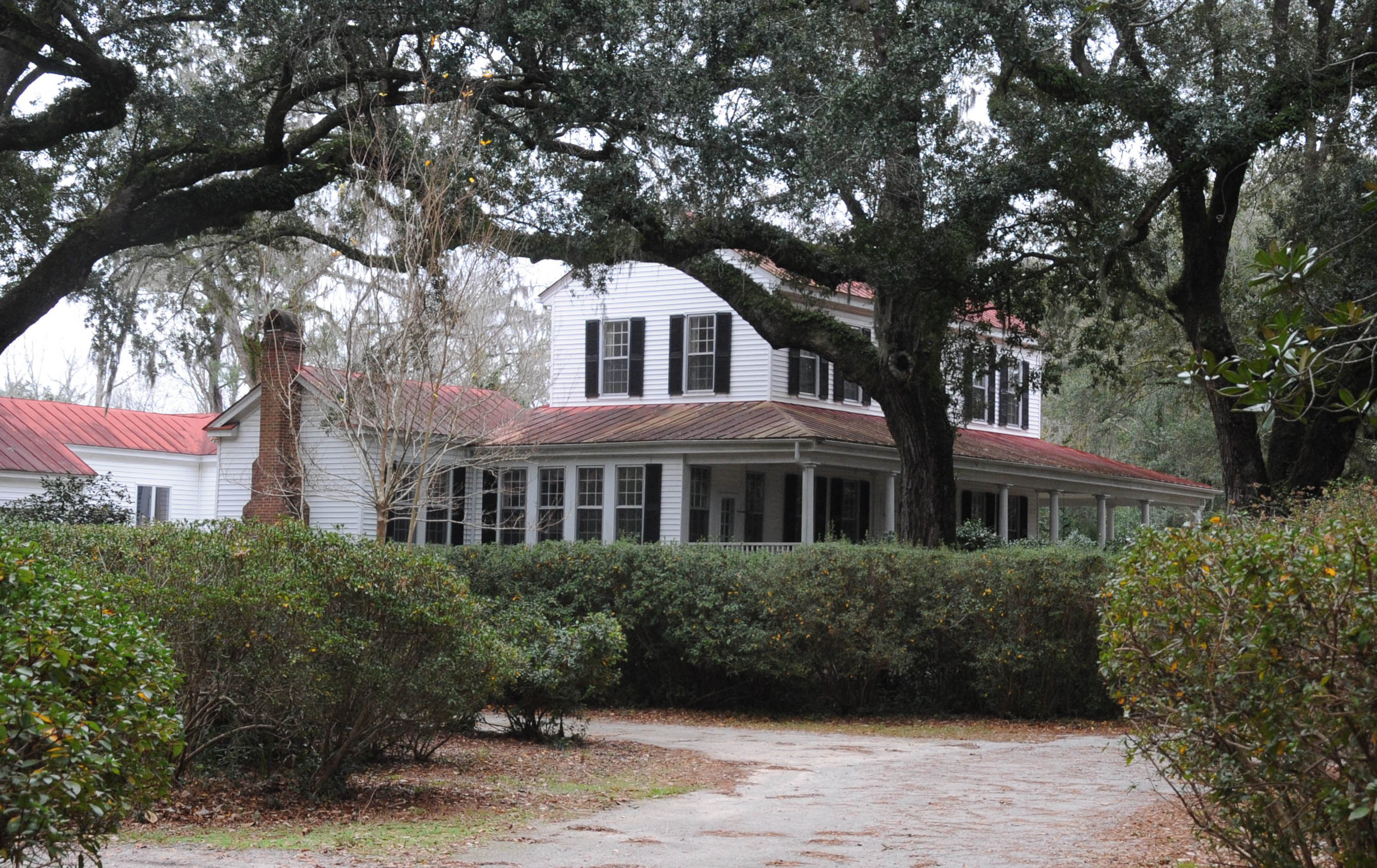 ELMORE-HENDERSON HOUSE- 1821-1823 ; FRANKLIN HARPER ELMORE, UNITED STATES CONGRESSMAN FROM 1836 TO 1839, UNITED STATES SENATOR IN 1850, ACTIVE SUPPORTER OF THE NULLIFICATION DOCTRINE, AND DISCIPLE OF JOHN C. CALHOUN